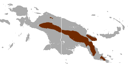 Eastern Long-beaked Echidna (Zaglossus bartoni) range, with the addition of the Indonesia-New Guinea border